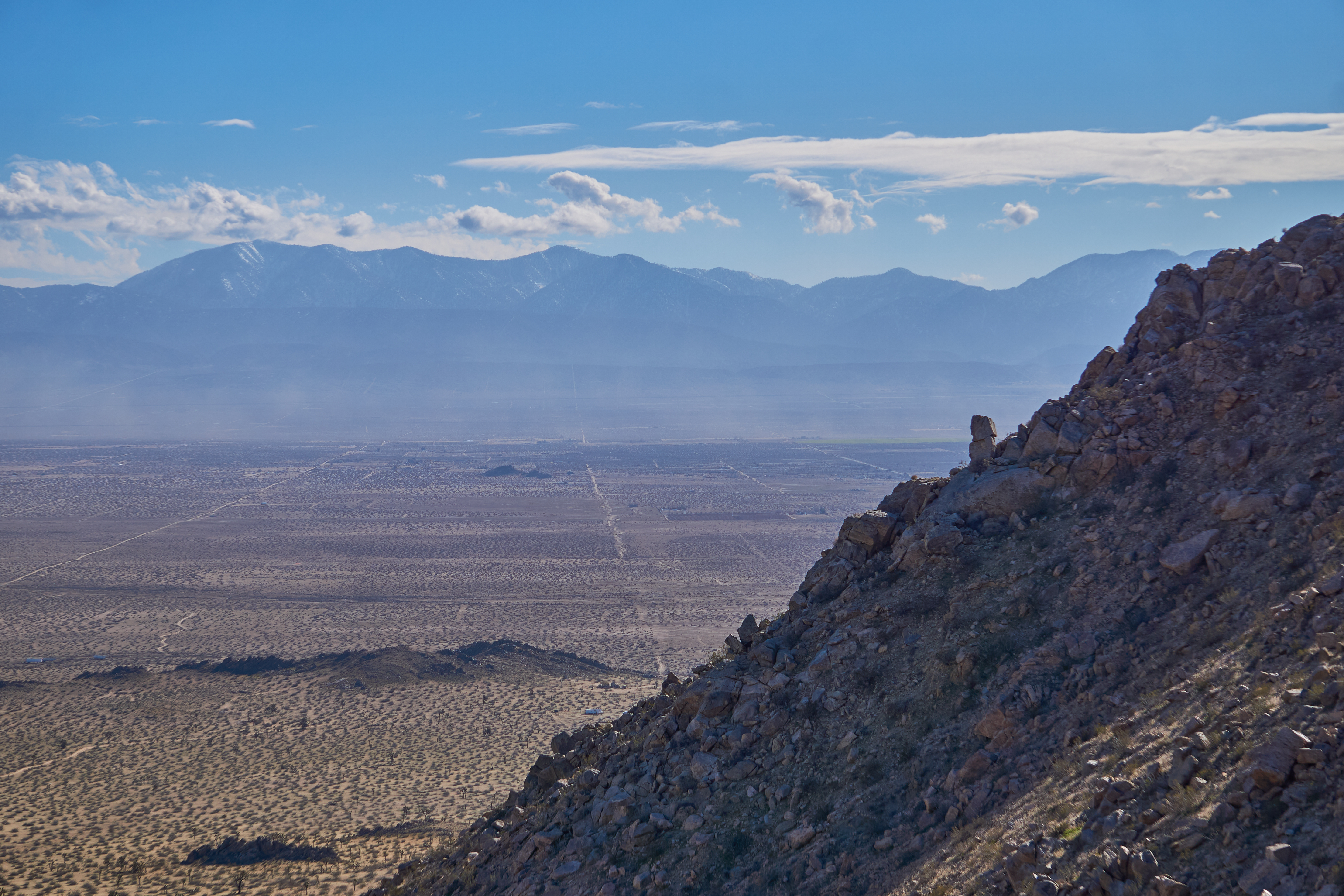 View of the northern San Gabriel Mountains from the saddle on Saddleback Butte, California